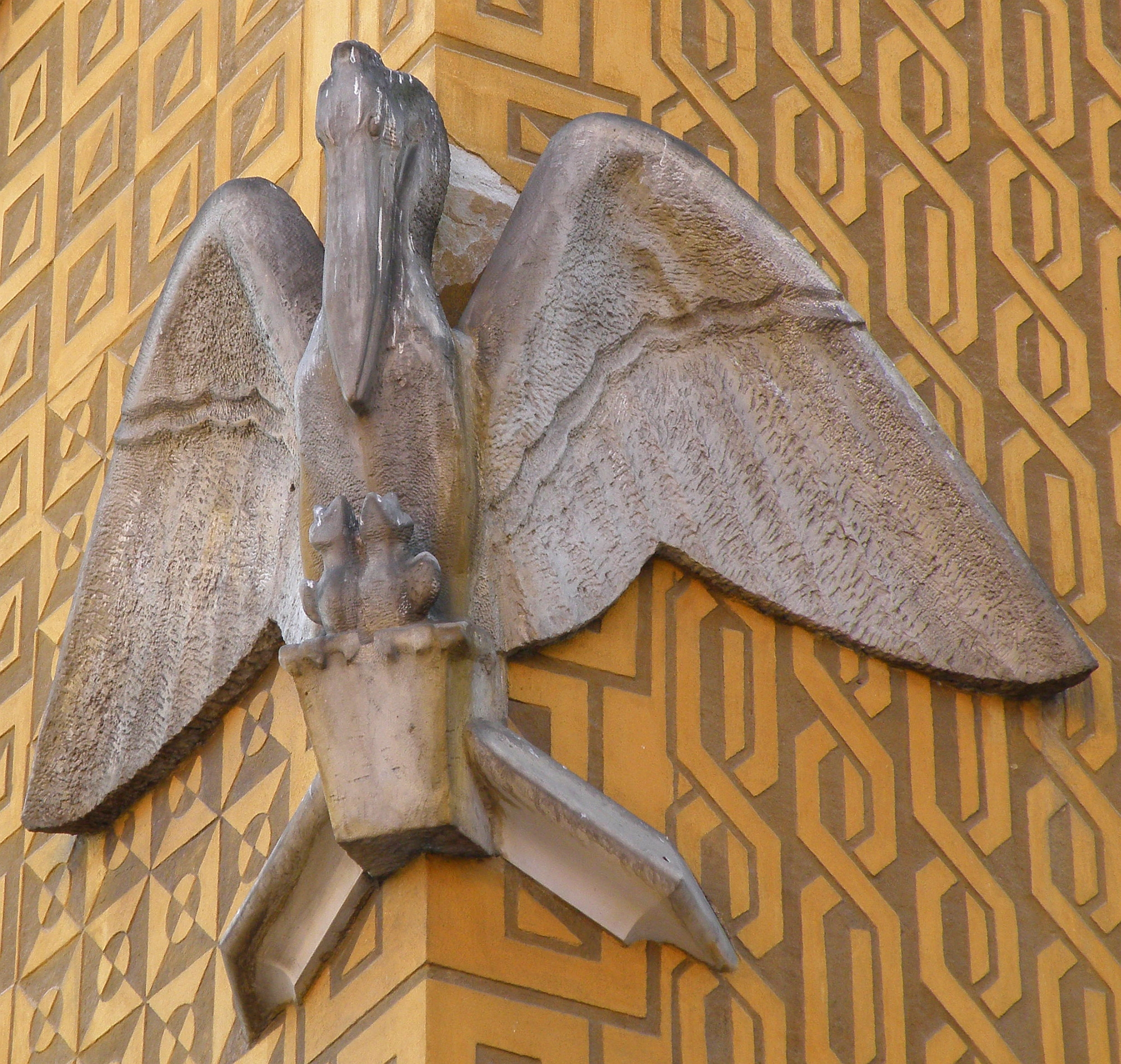 Poland, Royal Castle Square in Warsaw